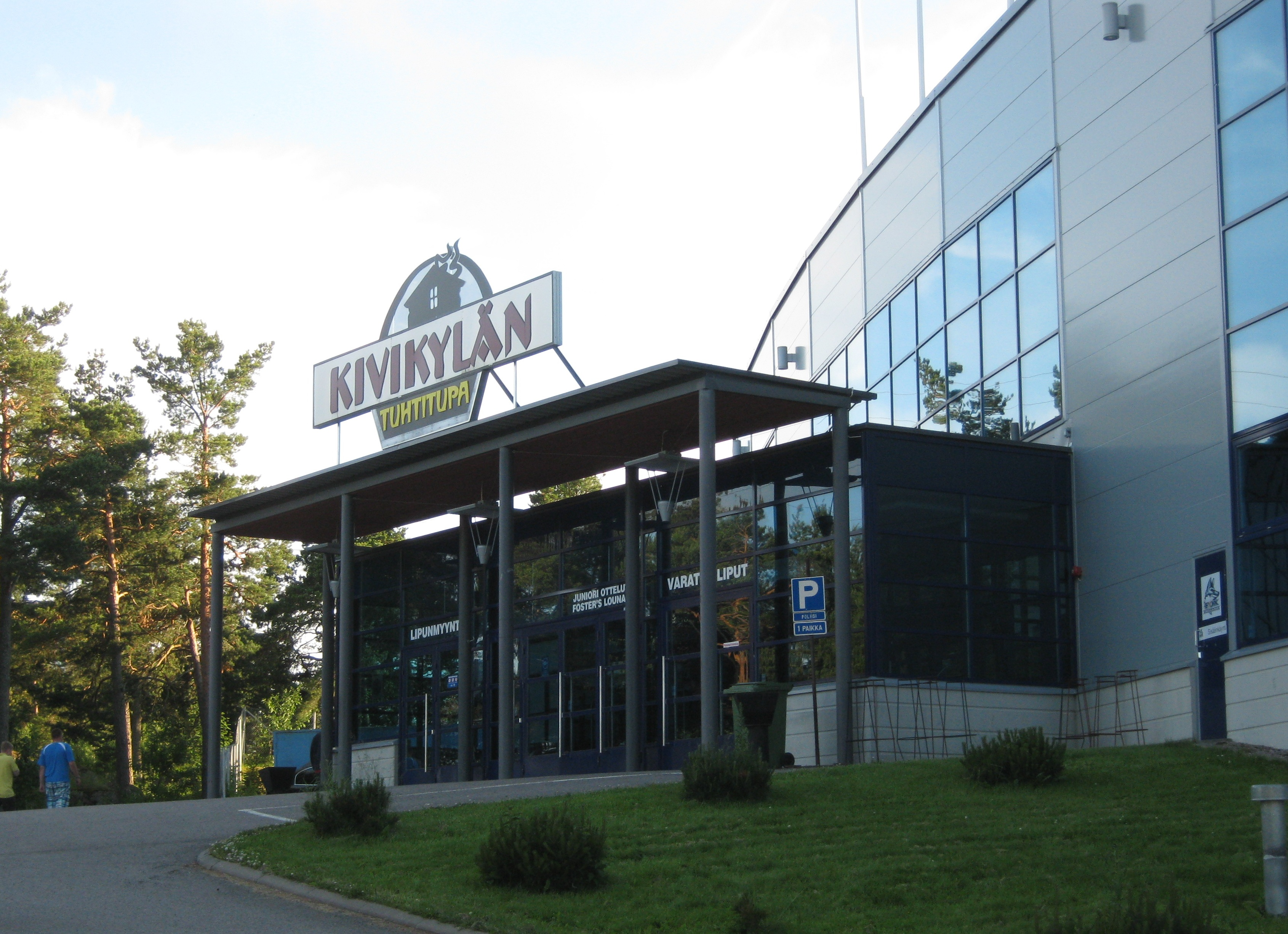 Äijänsuo ice hockey arena main entrance, Rauma, finland.